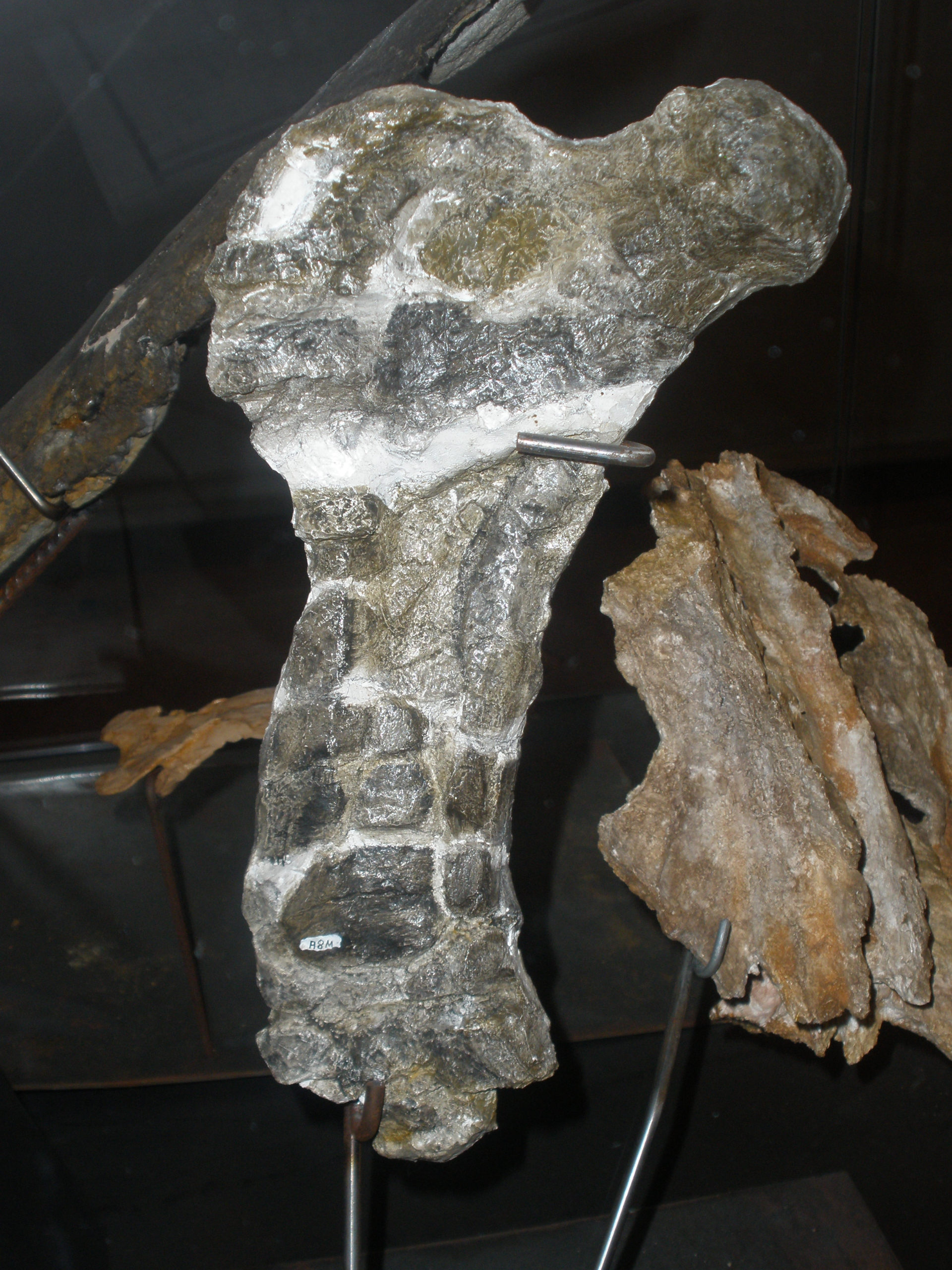 fossil femur of Gargantuavis philoinos, an extinct bird